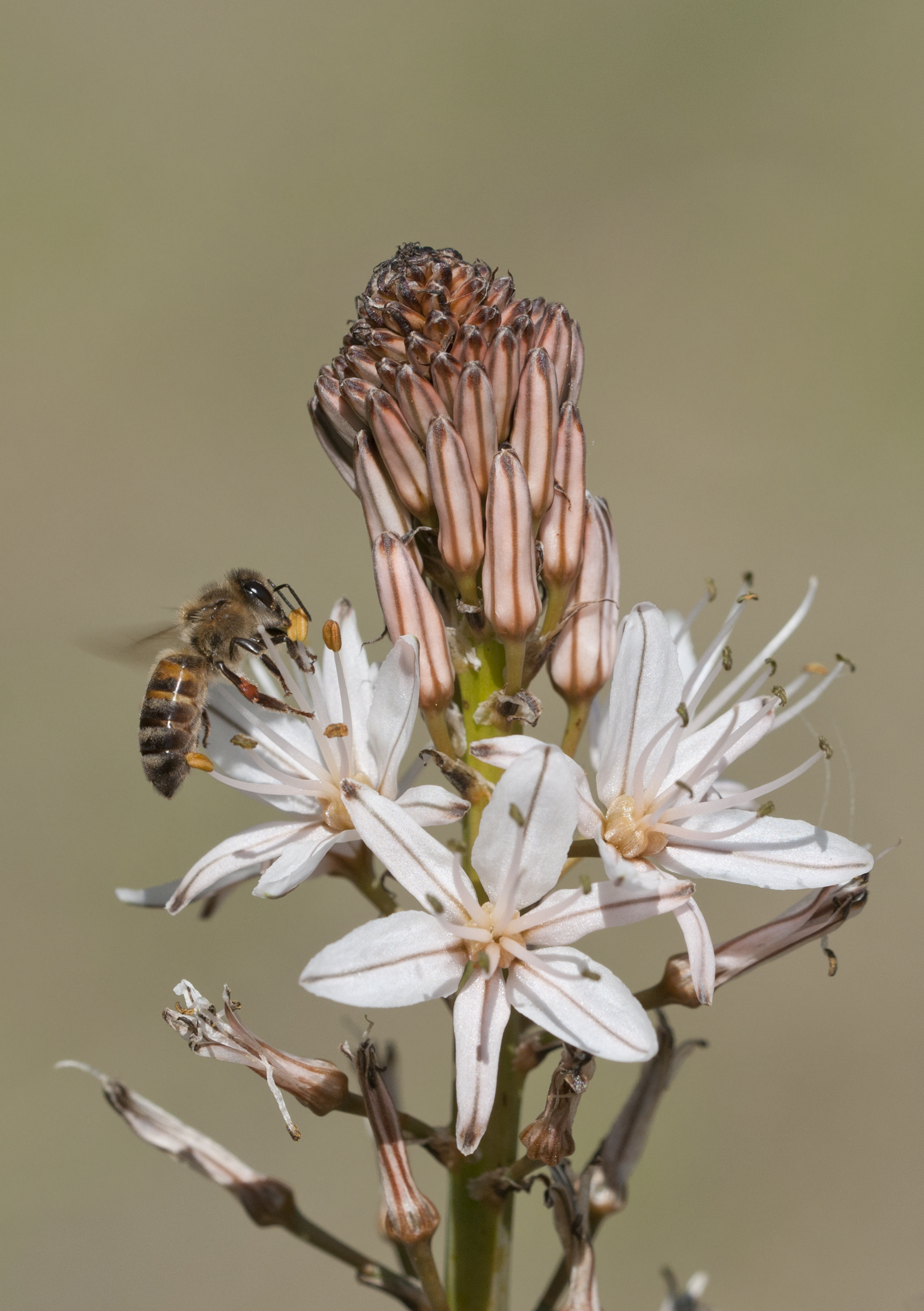 A honey bee (Apis mellifera) collecting nectar and pollen from flowers of common asphodel (Ashphodelus aestivus) in February. Sarıçam, Adana - Turkey.